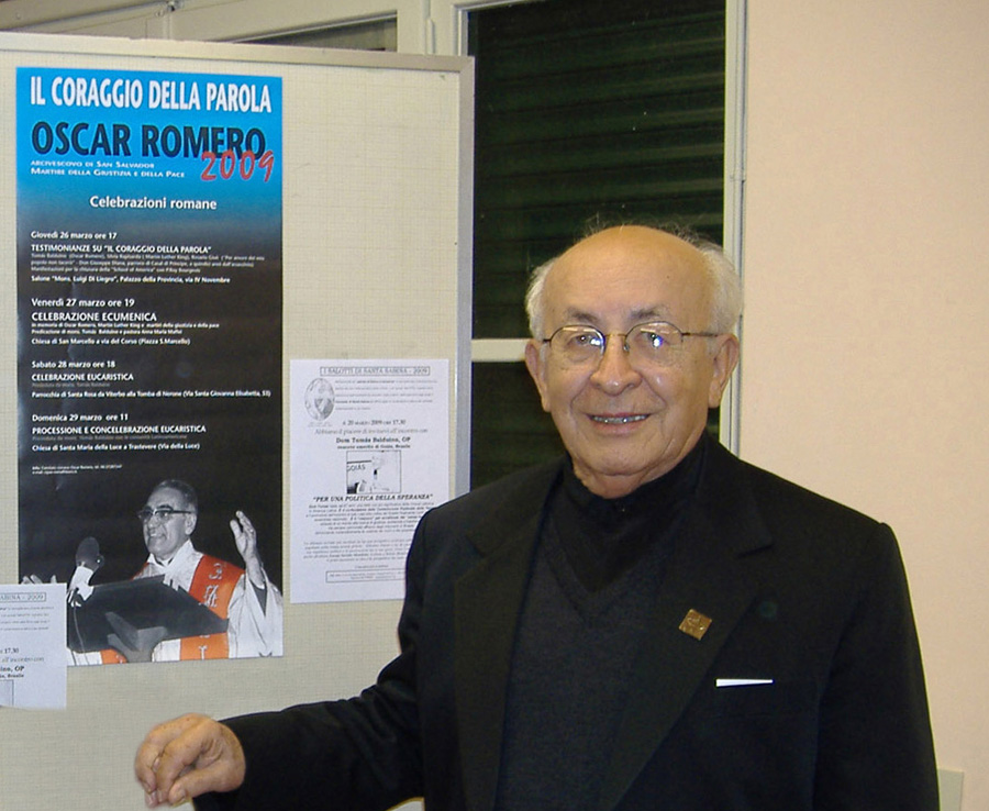 Brazilian Bishop Thomas Balduino in Rome, march 2009